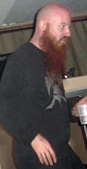 Jonathan Cummins passing by on stage during Zoobombs show at El Salon for Pop Montreal, October 1st, 2005, in Montreal.